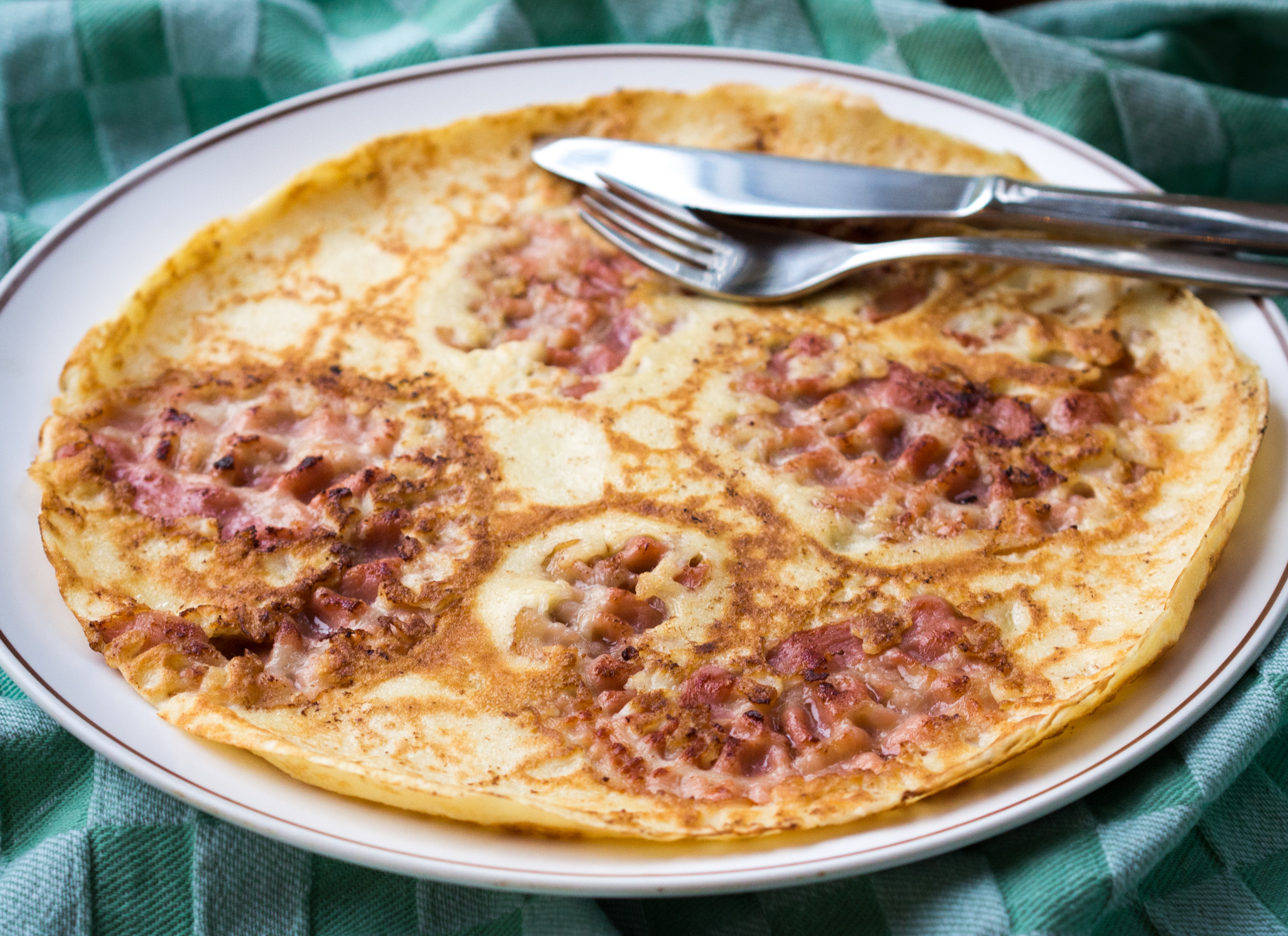 Spekpannenkoek is Dutch for a pancake with bacon. It is a popular way of eating pancakes in the Netherlands, and often served together with stroop (Dutch dark treacle).